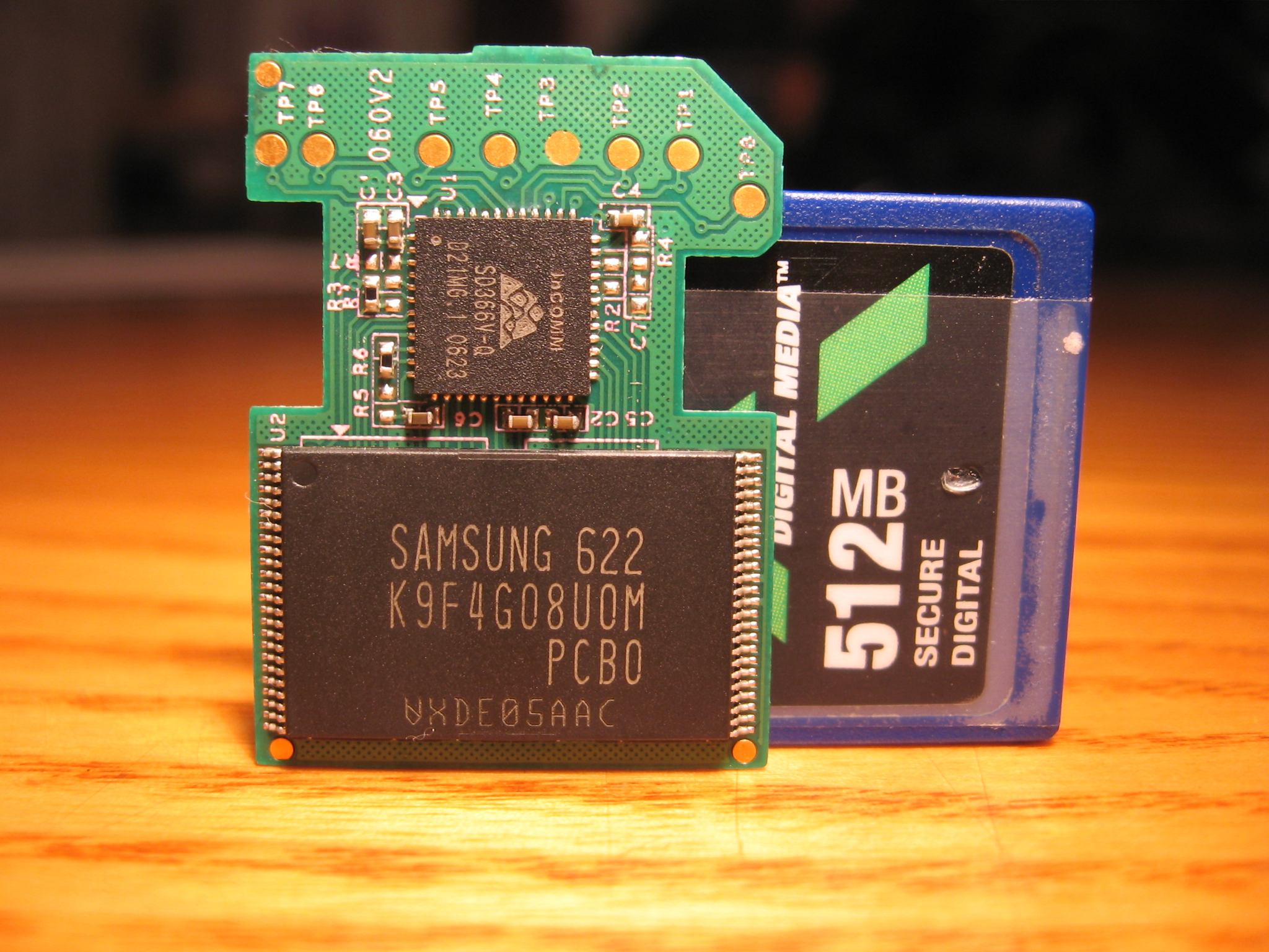 Digital Media SD Internals, 512MB